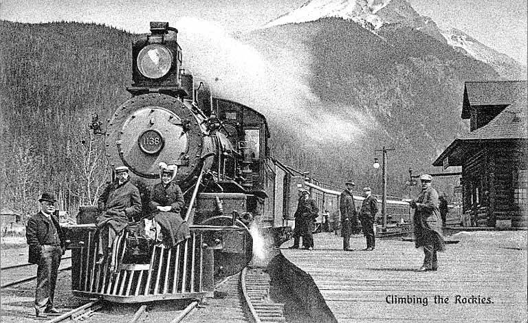 Caption on image: Climbing the Rockies Handwritten on verso: 7-23-11 Printed on verso: J. Howard A. Chapman, Victoria, B.C. 1210 Filed in: British Columbia-Rocky Mountains Subjects (LCTGM): Railroad locomotives--British Columbia; Railroad stations--British Columbia; Mountains--British Columbia; Postcards Subjects (LCSH): Canadian Rockies (B.C. and Alta.)